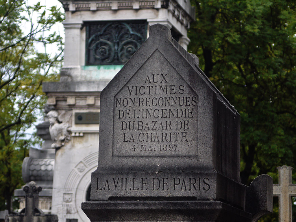 Père Lachaise cemetery. Monument erected to the unidentified victims of the May 4th, 1897 fire of the Bazar de la Charité. approx 129 casulaties plus 5 unidentified.